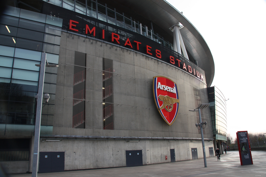 Emirates Stadium, located in London, is Arsenal's home ground.